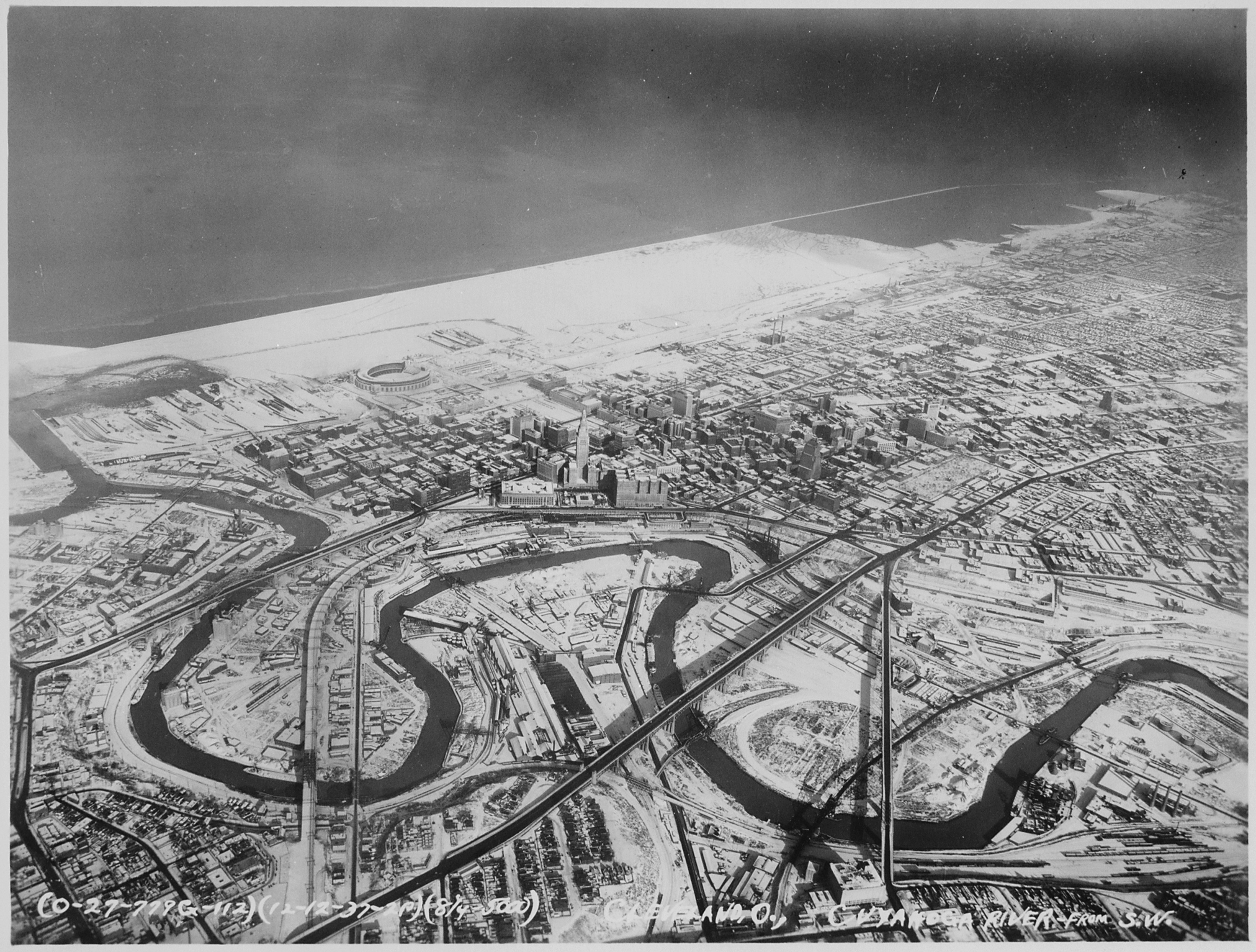 Scope and content: The Cuyahoga River winds through the flats.